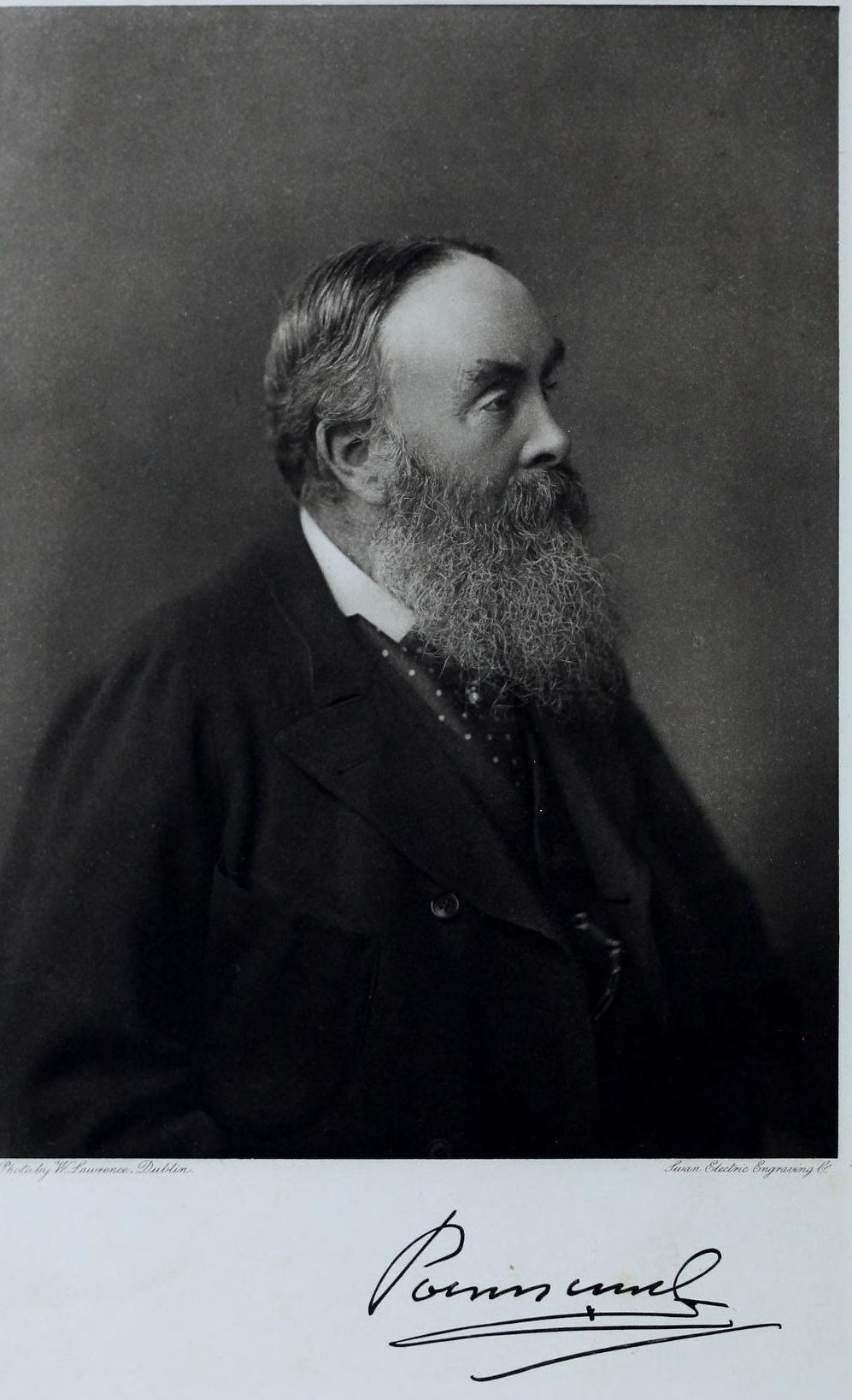 Portrait of Mervyn Wingfield, 7th Viscount Powerscourt, by William Lawrence for his catalog "A description and history of Powerscourt"